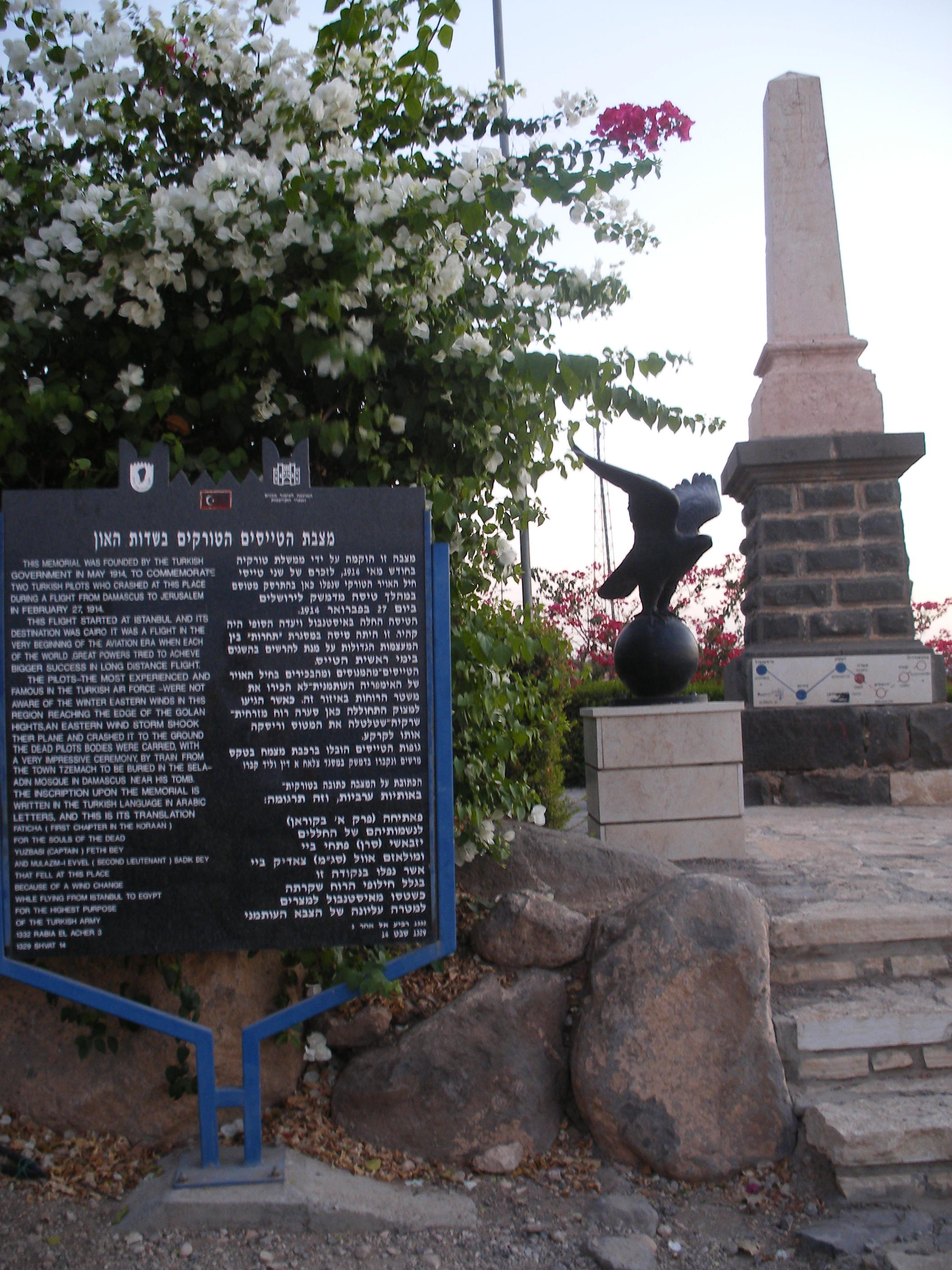 The Turkish pilots monument